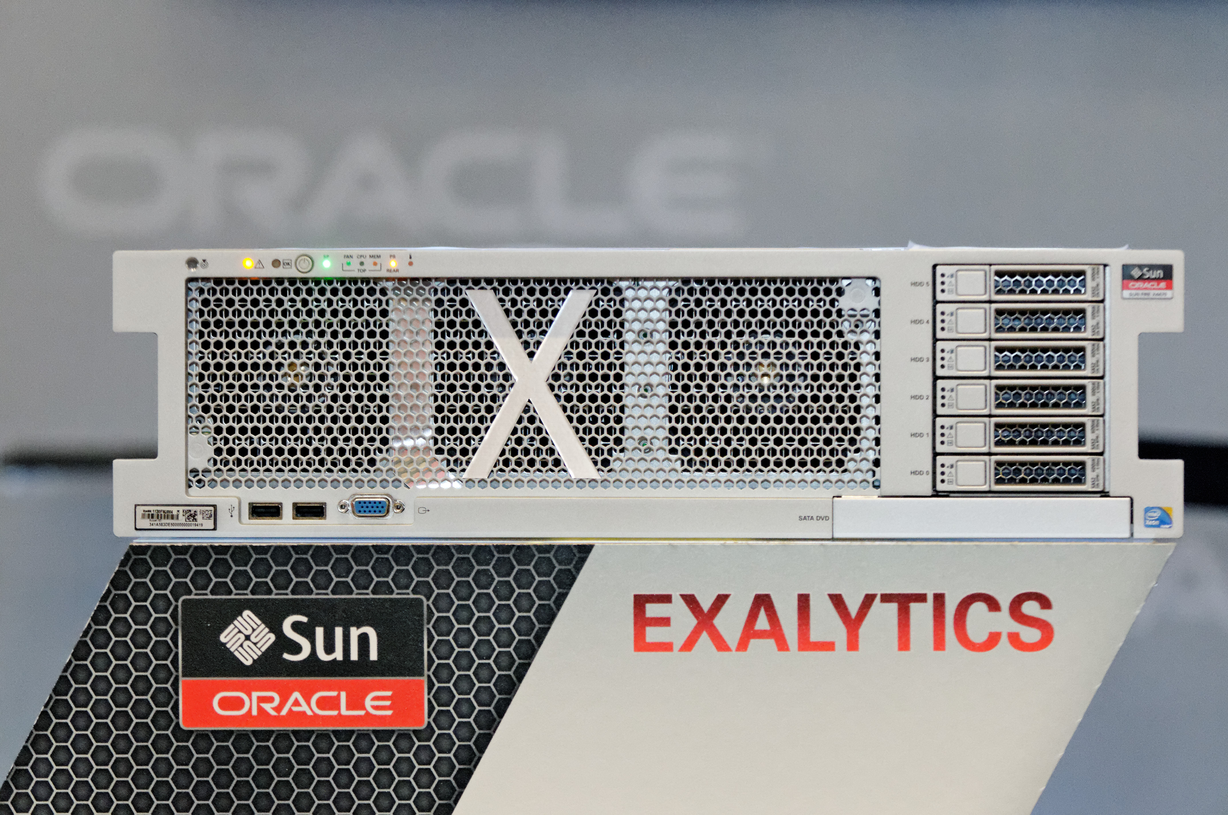 Oracle Exalytics in-memory data appliance